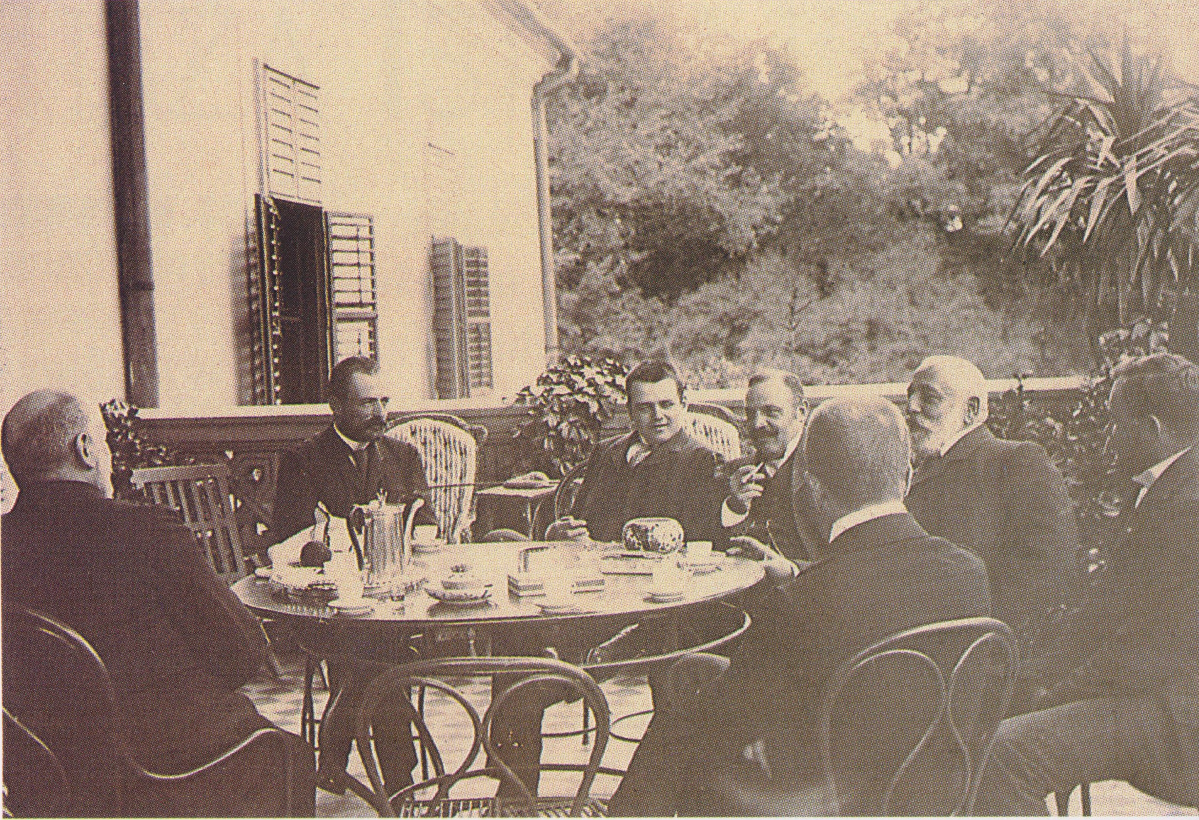 Prime Minister István Tisza among his family (his son, István Tisza, Jr. sits next to him) and guests in 1904